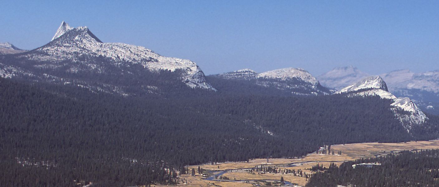 Cathedral Peak and Tuolumne Meadows, in Yosemite National Park.